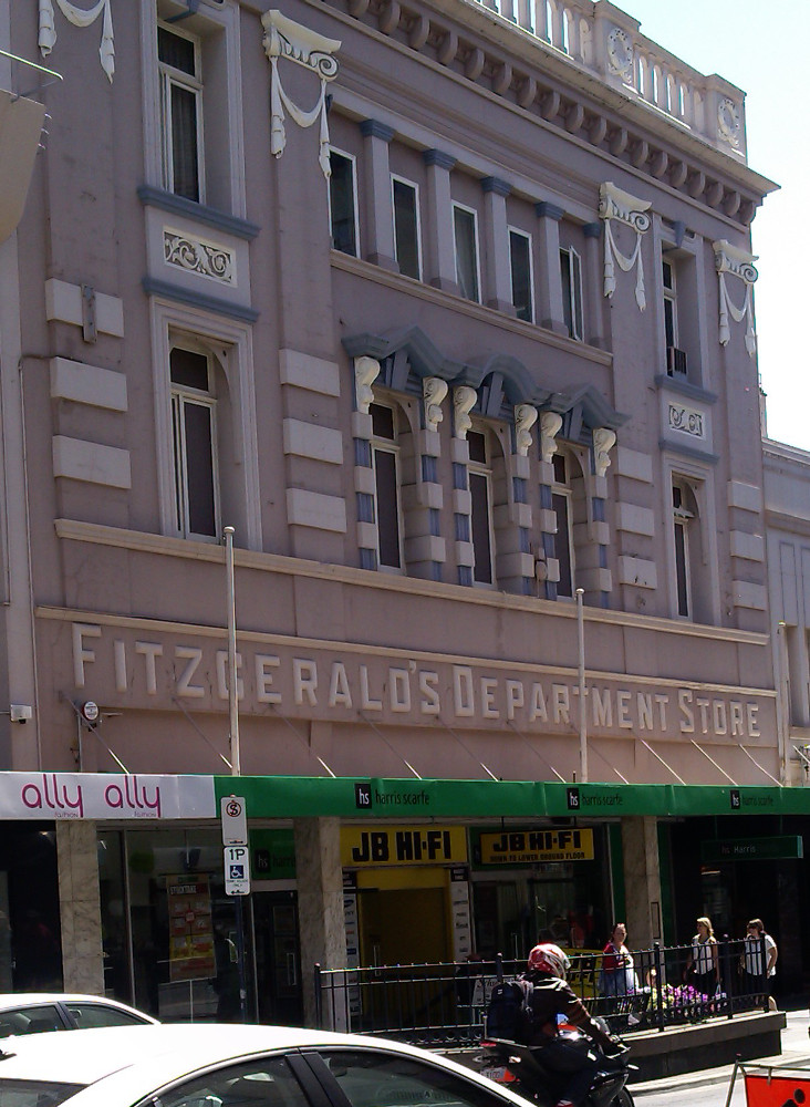 Present day Harris Scarfe store in Hobart, Tasmania; formerly FitzGerald's Department Store, with original lettering still visible.